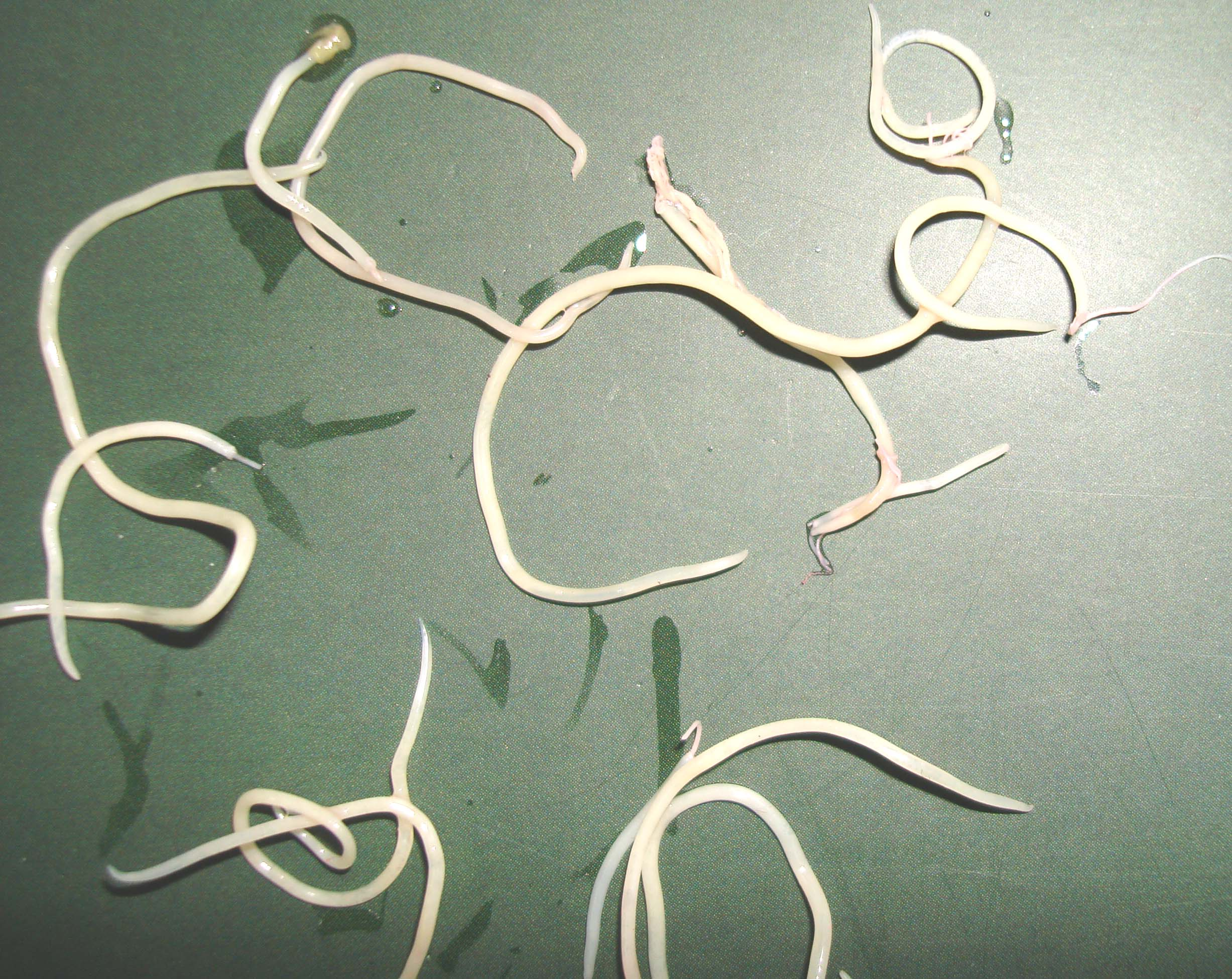 photo of Ascaridia galli worms from chicken